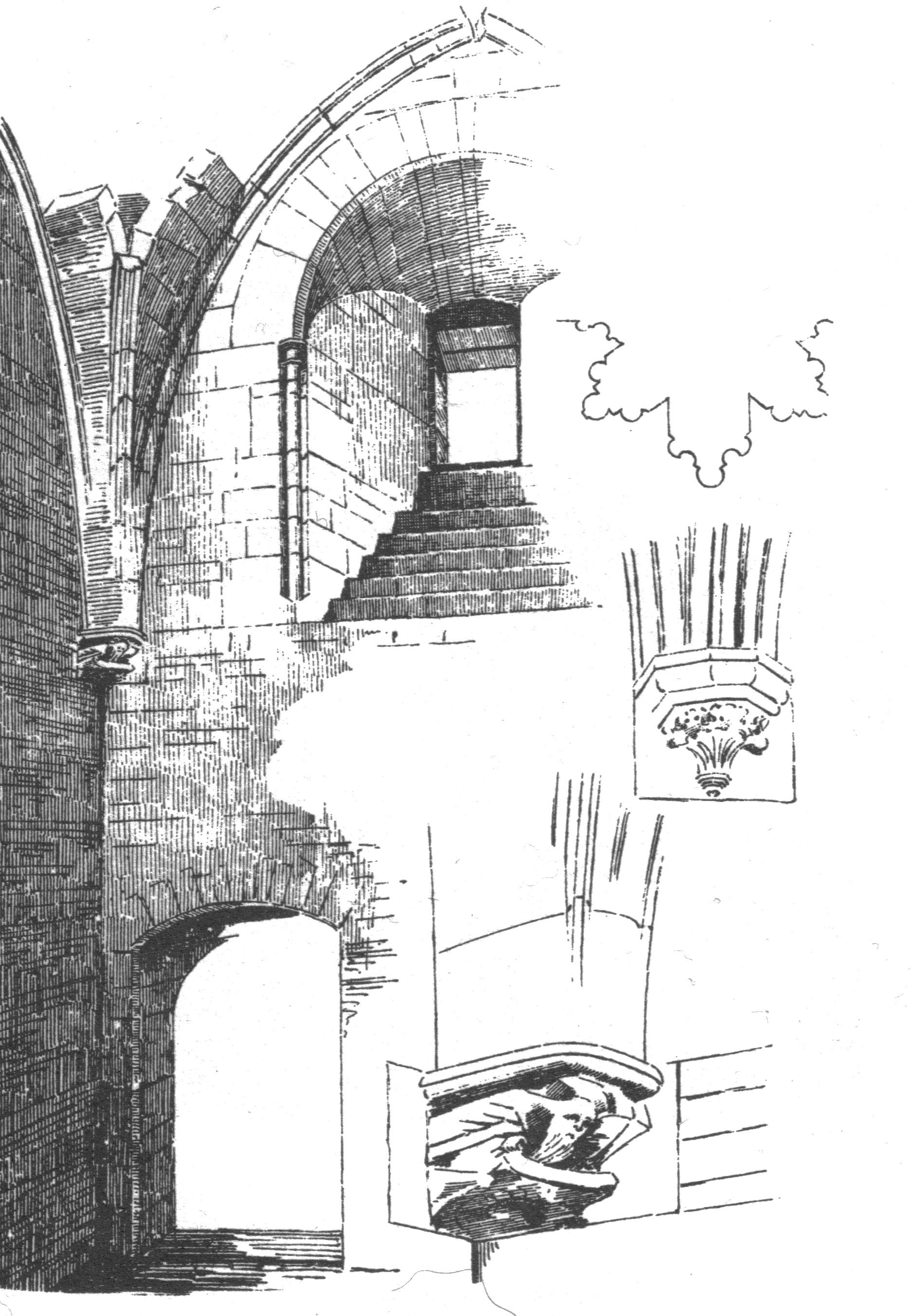 Craigie Castle, Ayrshire, Scotland. The Great Hall detail